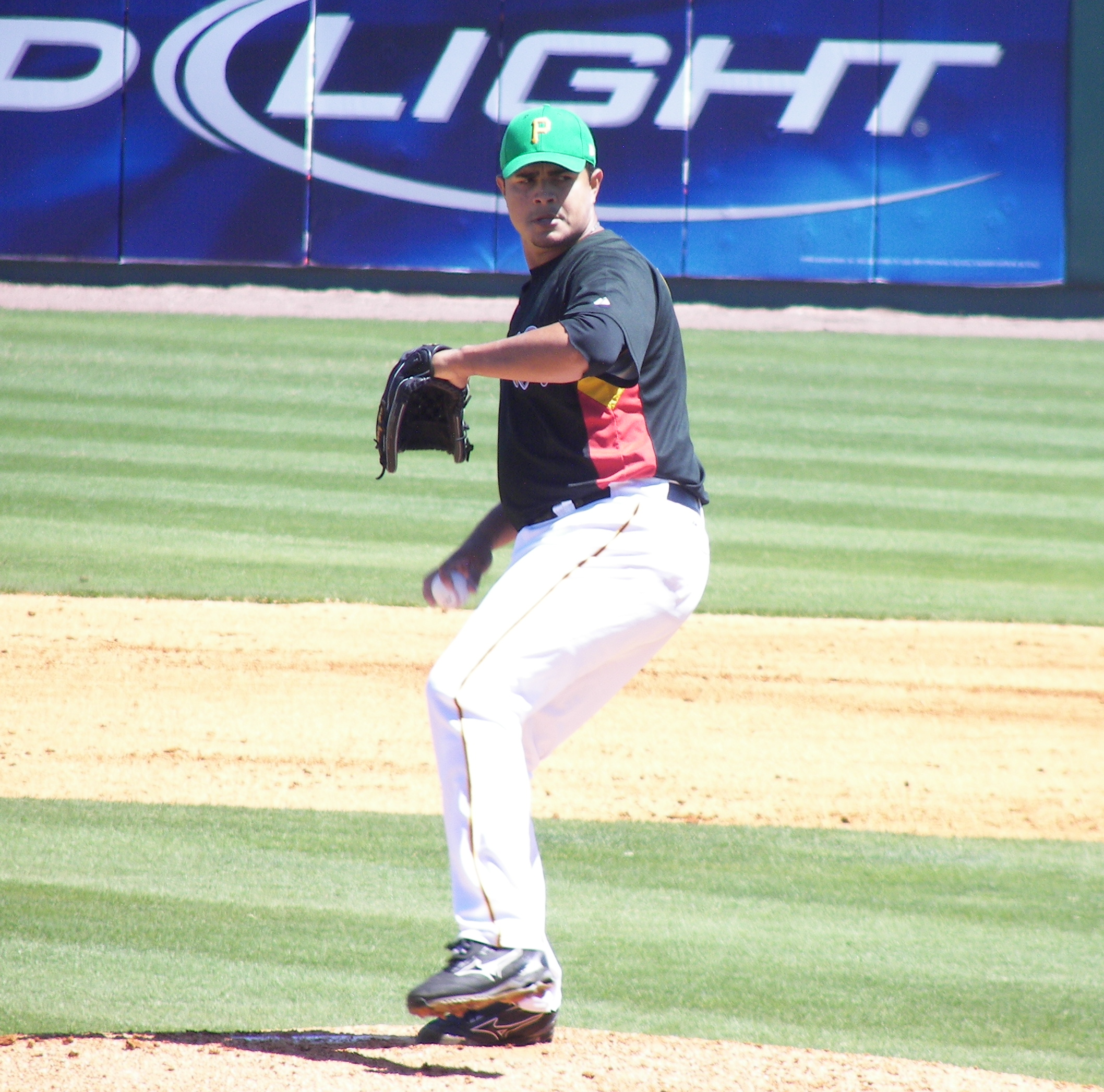 Pittsburgh Pirates pitcher Tony Armas, Jr. during a Pirates/Minnesota Twins spring training game at McKechnie Field in Bradenton, Florida.